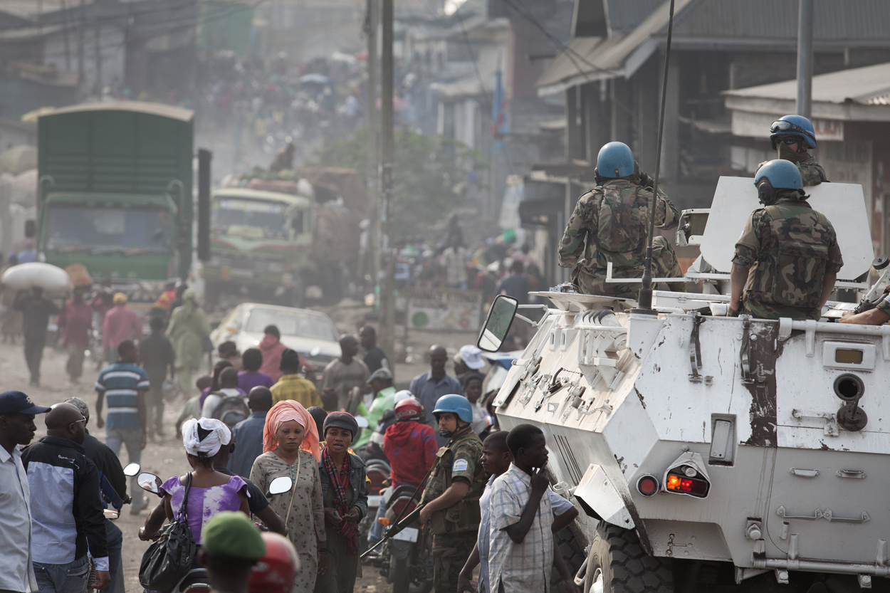 MONUSCO Urubatt armored vehicles patroling streets of Goma for civil protection.